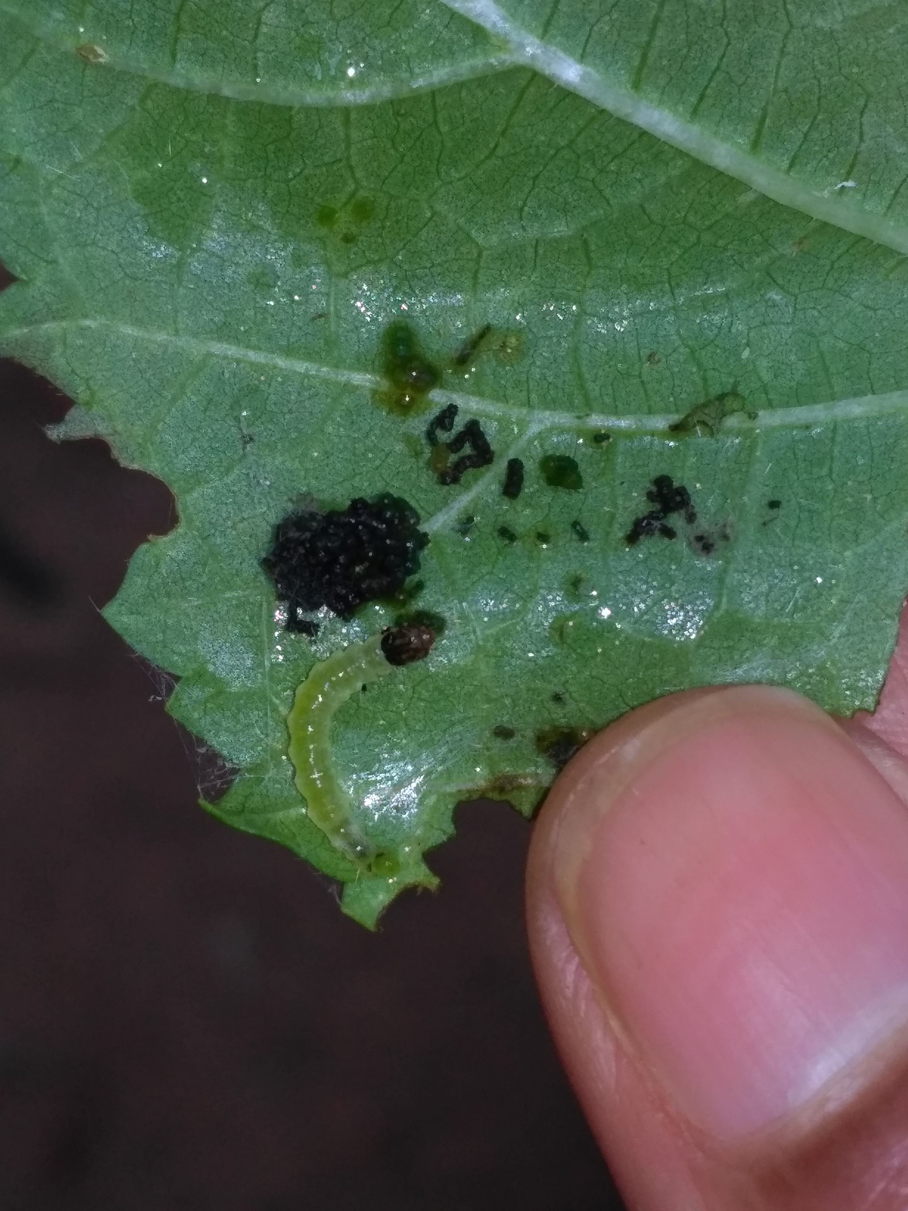 Bhindi leaf roller with feaces